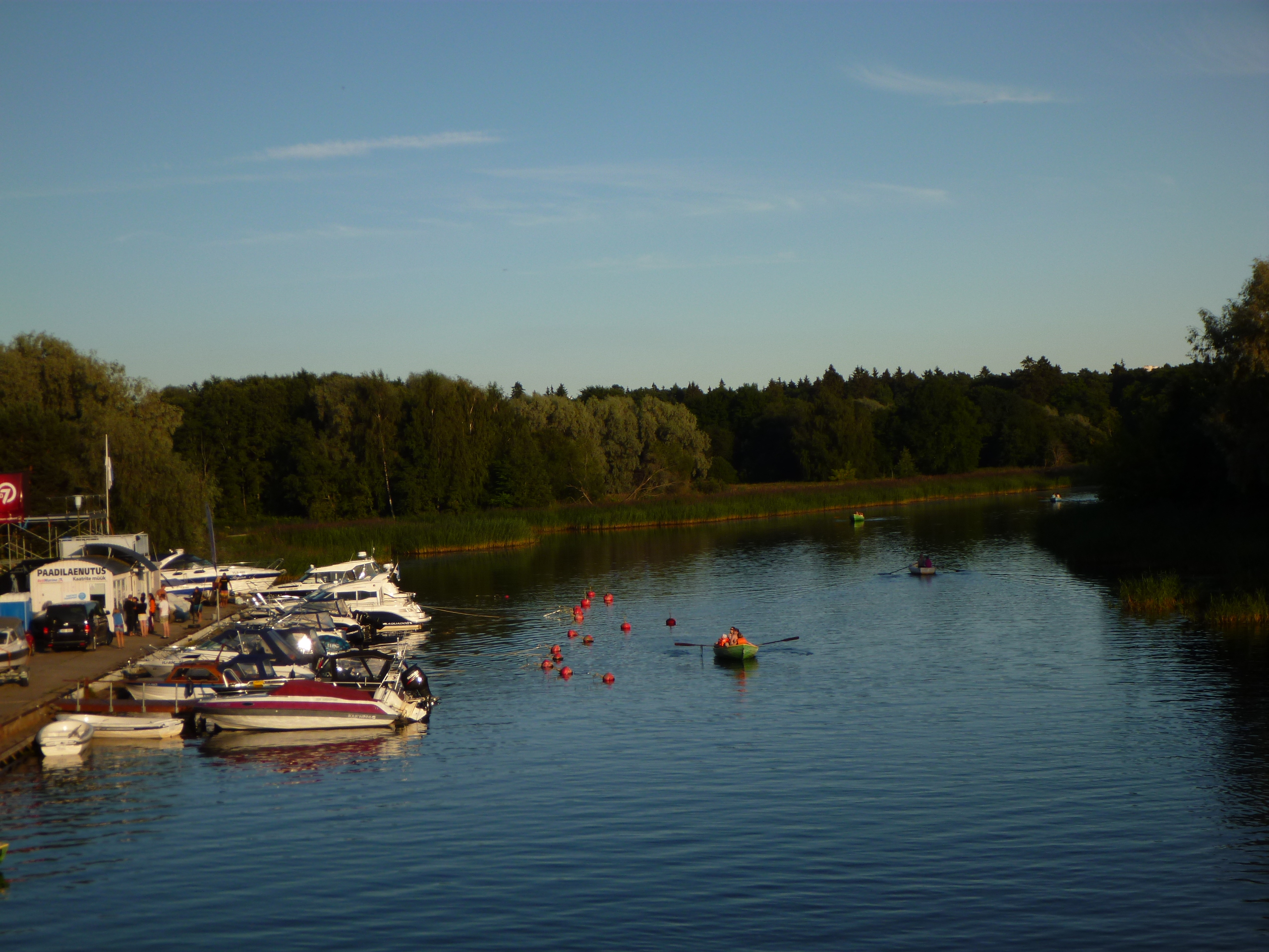 Pirita River seen from the Pirita bridge.